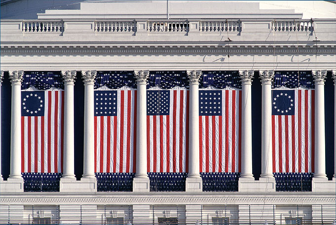 Taken from on January 31, 2006. Historical American flags in Washington: the Betsy Ross flag hangs on both ends and the classic Old Glory is to each side of the current 50-state version.